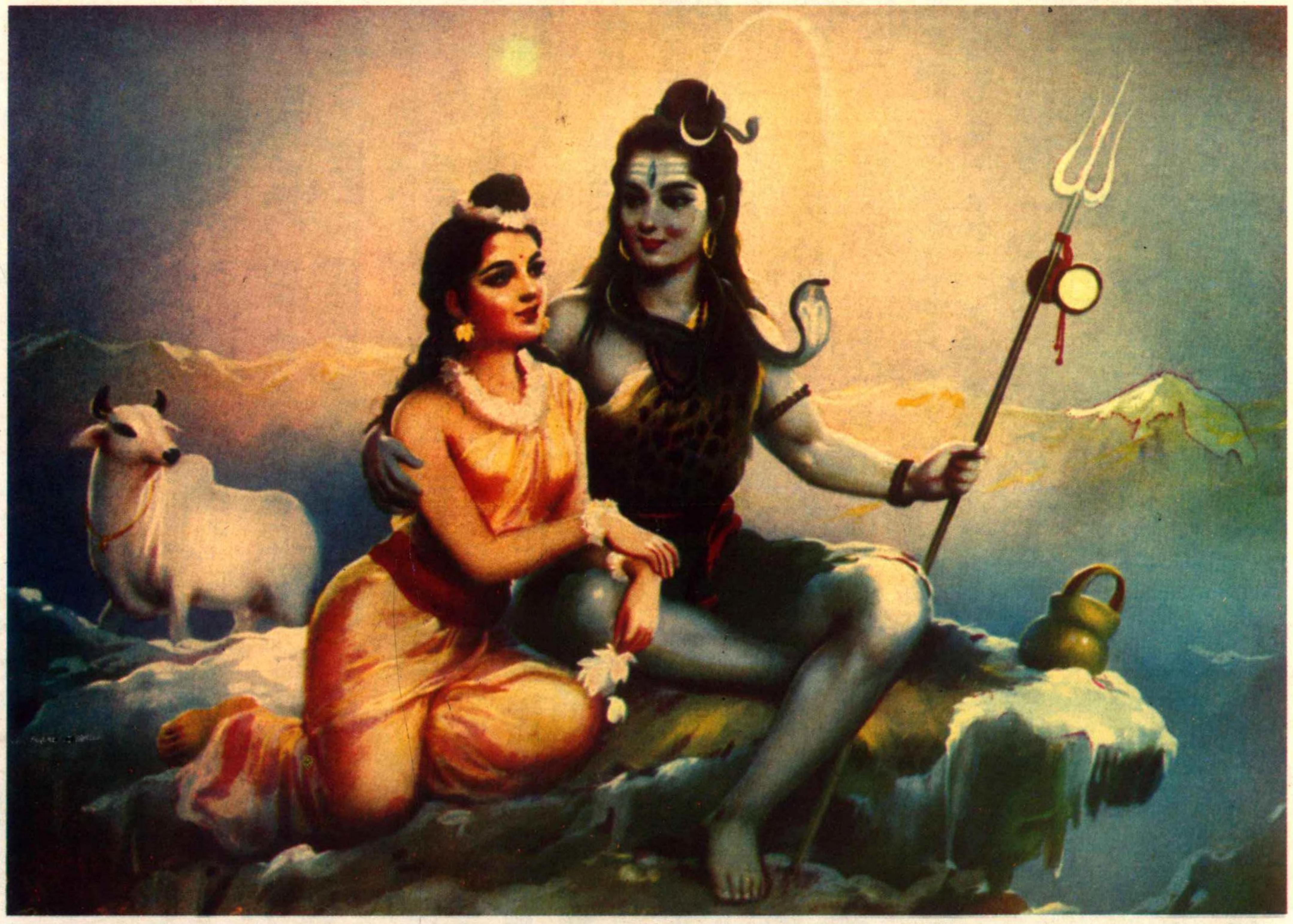 Tulsi Ramayan Tej Kumar Book Depo by MahaMuni Usage Topics Sanskrit, "महामुनि का संग्रह", "Tej Kumar Book Depot" Collection opensource Language Sanskrit Indological Books , 'Tulsi Ramayan - Tej Kumar Book Depo.pdf' Identifier TulsiRamayanTejKumarBookDepo Identifier-ark ark:/13960/t2t49xm76 Ocr language not currently OCRable Ppi 600 Scanner Internet Archive HTML5 Uploader 1.6.3